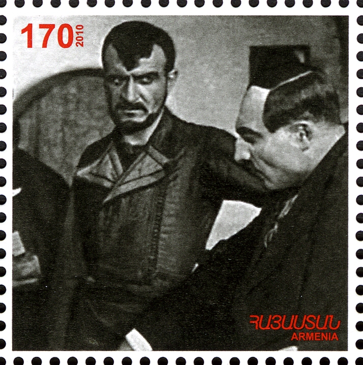 Favourite Armenain Films - 75 Years of Pepo screening (Hrachia Nersisyan - Pepo)